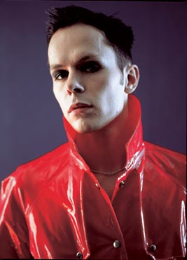 Promo-picture